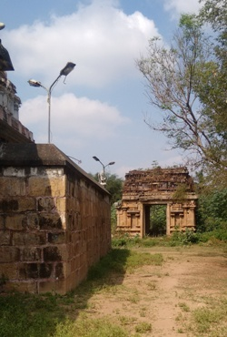 Gobinatha perumalkoil near Pattiswaram பட்டீஸ்வரம் அருகே கோபிநாதப்பெருமாள்கோயில்